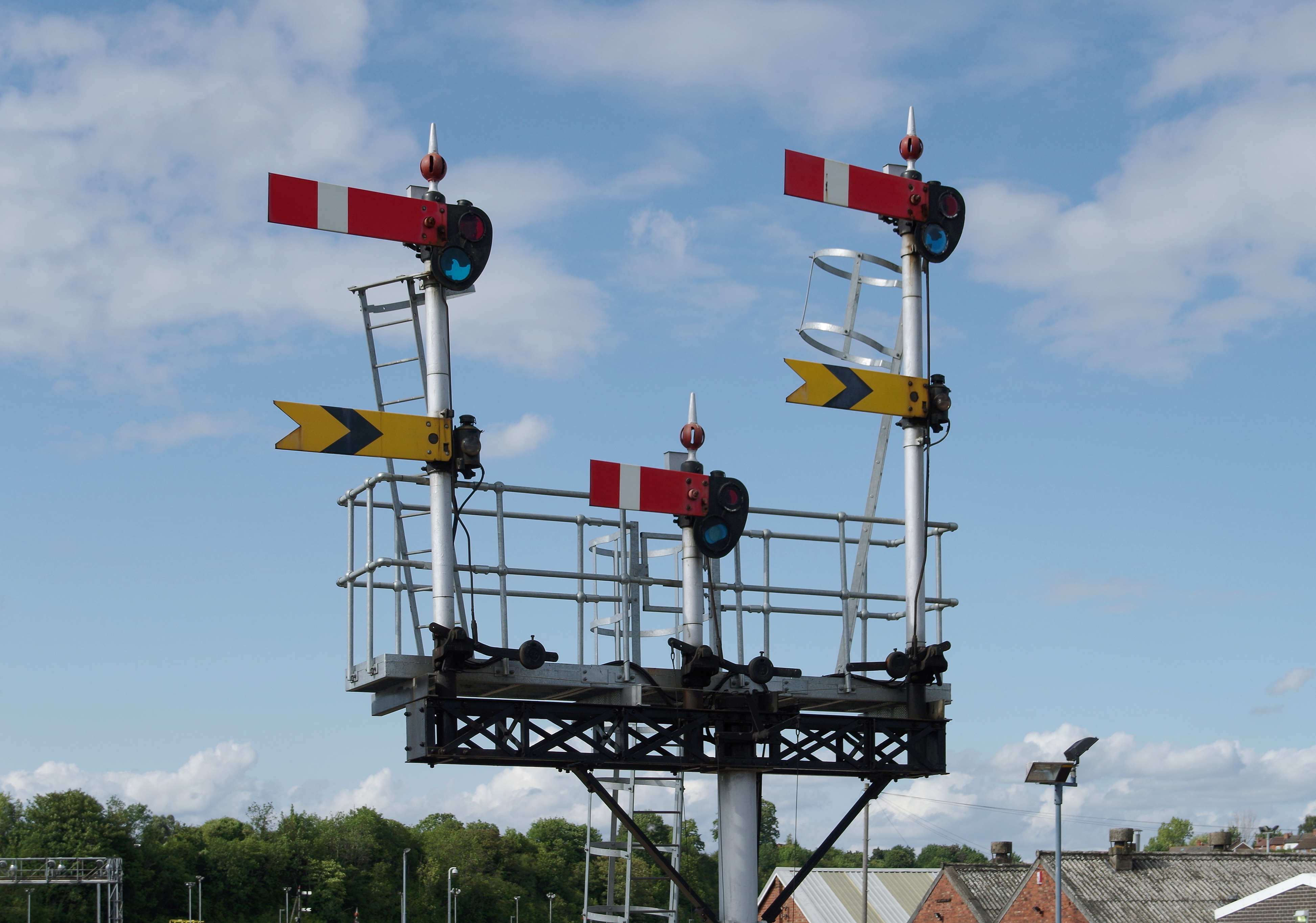 A semaphore signal gantry at Worcetsre Shrub Hill railway station. Amazing that such a thing still exists on the main line.